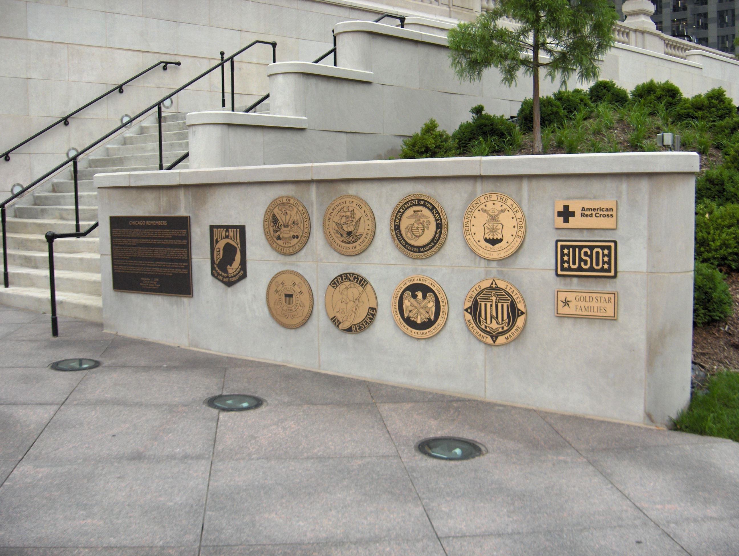 A western view of the Vietnam Veterans Memorial Plaza in Chicago, Illinois, Wabash Drive and State Street (River Level) .